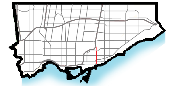 map of Woodbine Avenue